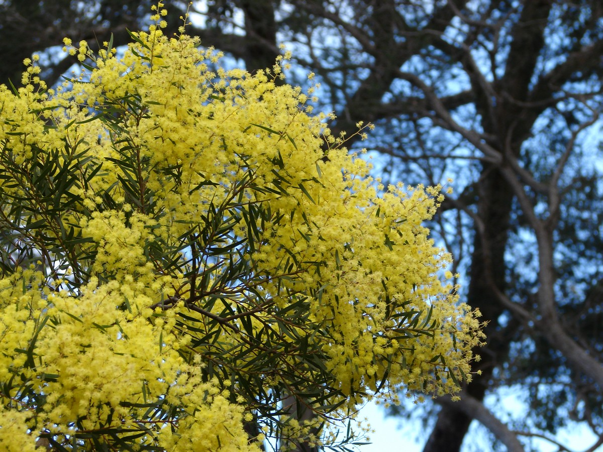 Acacia prominens Dense tall shrub to medium tree Native to Australia - New South Wales Location: Melbourne, Australia Better viewed larger :)